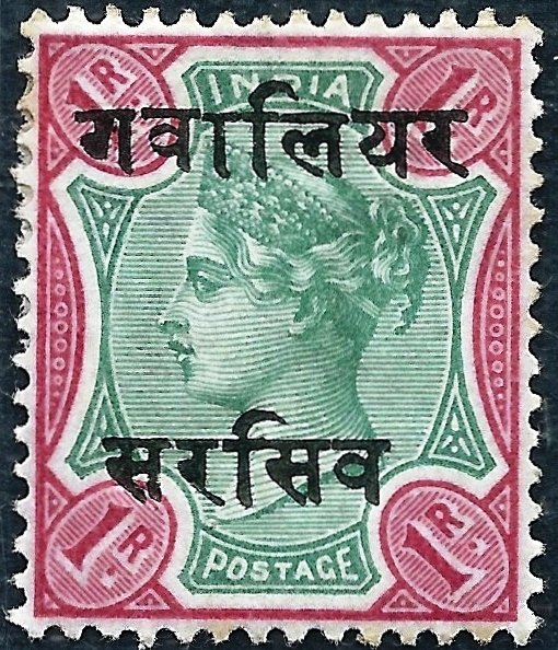 One Rupee (Green & carmine colour) King Victoria Head overprinted with "GWALIOR" and "SERSIVE" in Devanagri script (language Hindi) (Typeface O1)(1896) Postage stamp of Gwalior state, a Central Indian convention state. Error in that the last two Devanagari characters interchanged to read 'Sersive' instead of 'Service'. Ser No O10a for Gwalior in Stanley Gibbons Stamp Catalogue Commonwealth & British Empire Stamps (1840-1970). (2008). London. Ref pp 283-285. Own work. From the collection of Brig A.P. Singh (self).